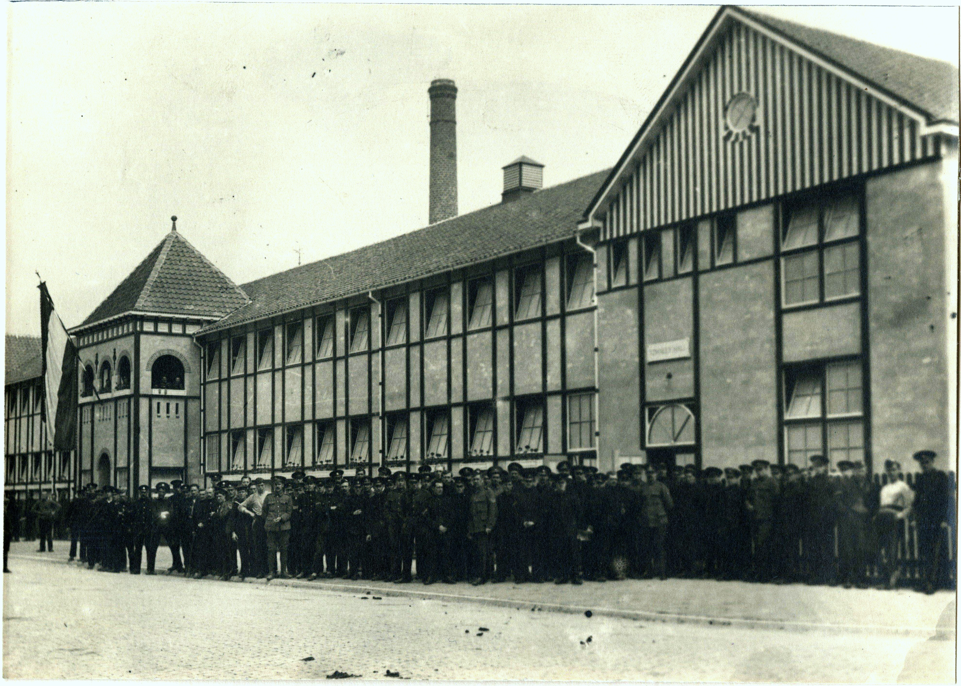 Bachmanstraat, The Hague, 1918. 'Townley Hall' barracks with British military internees. (military 'prisoners' of war) They were held captive in compliance to the Fifth and Thirteenth Convention of the Second Peace Conference of 1907. The barracks were named after Sir Walter Townley (1863-1945), British ambassador to the Netherlands at that time.